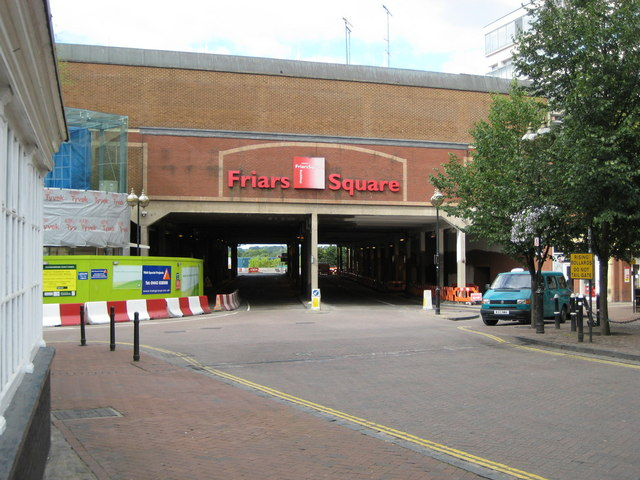 Aylesbury: Friars Square According to their website Friars Square has 60 stores, 7 food outlets and 800 parking places. This photo was taken from outside 897782 looking down along Great Western Street that originally led to the railway station.